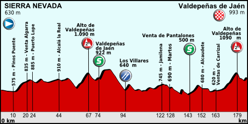 Profile of the 5th stage: Vuelta a España 2011